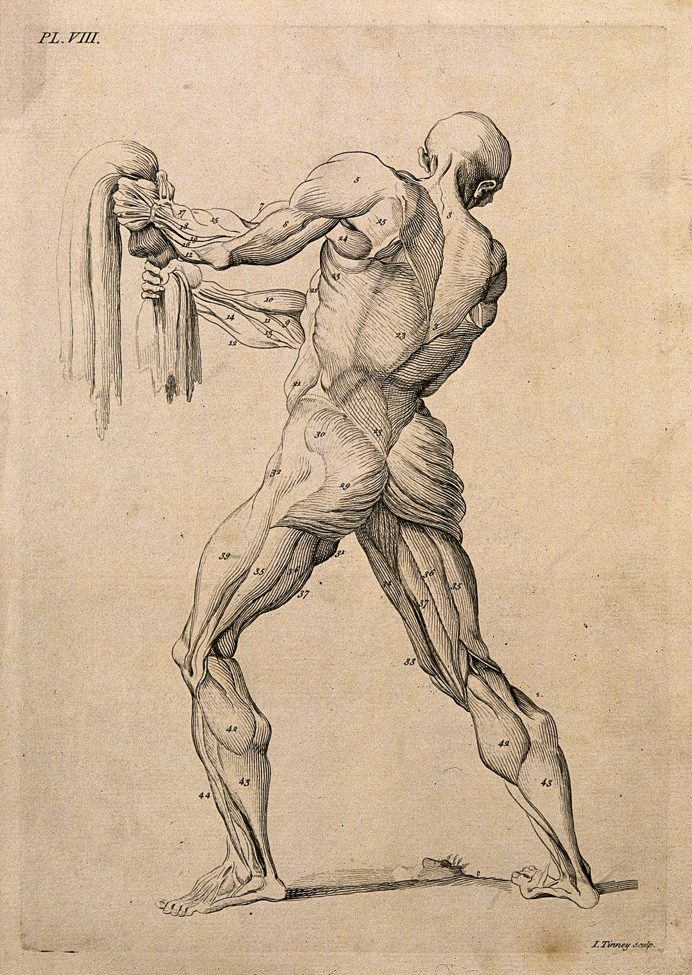 An écorché figure gripping a piece of cloth, with left leg bent, seen from behind. Line engraving by J. Tinney, after W. Cowper, 1743. Iconographic Collections Keywords: John Tinney; William Cowper